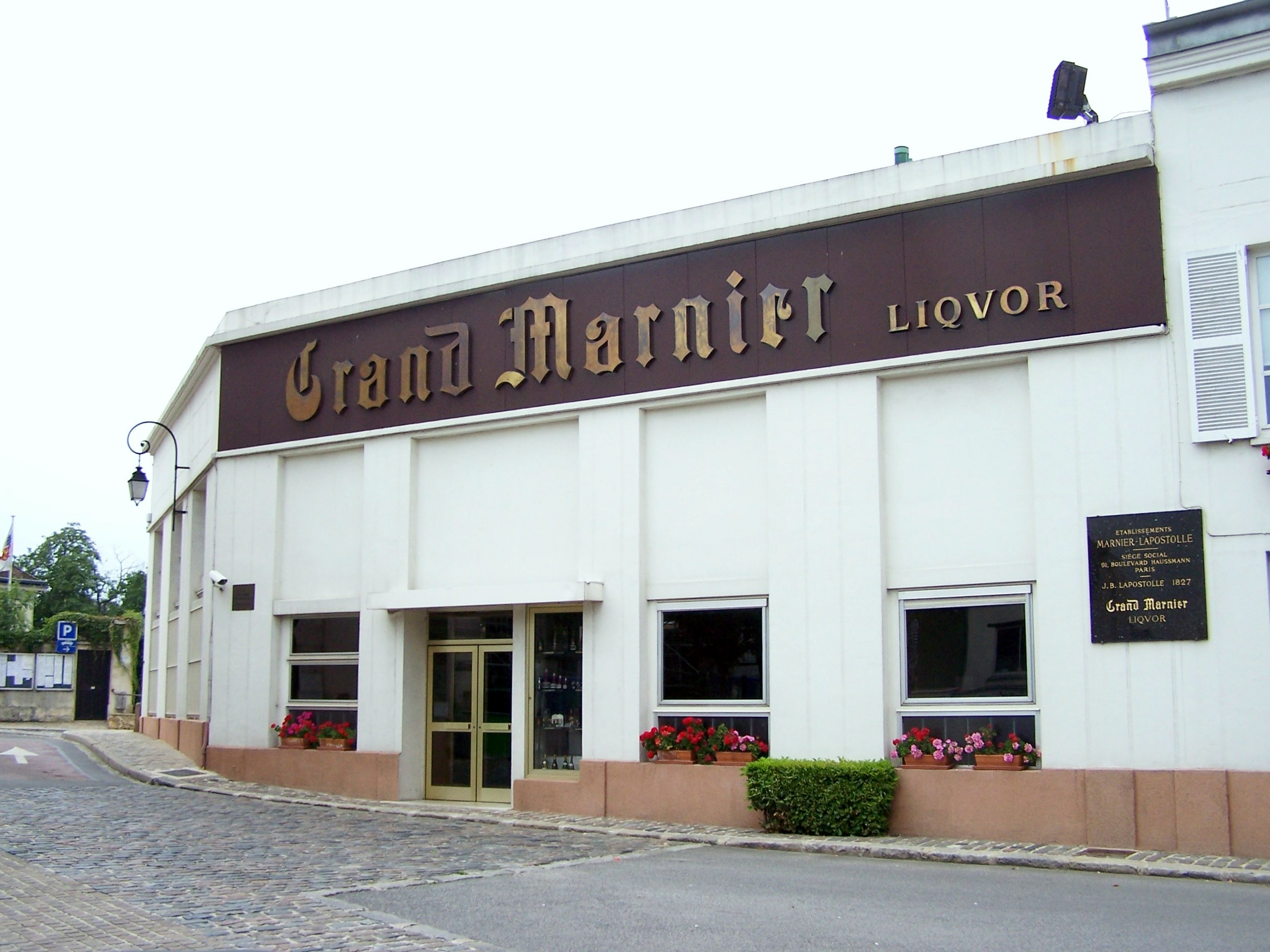 Company Grand Marnier in Neauphle-le-Château (Yvelines, France)